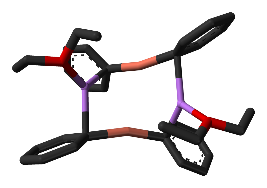 Stick model of a dimer from the crystal structure of lithium diphenylcuprate dietherate, Ph2CuLi·2OEt2. X-ray crystallographic data from Angew. Chem. Int. Ed. (1990) 29, 300-302.